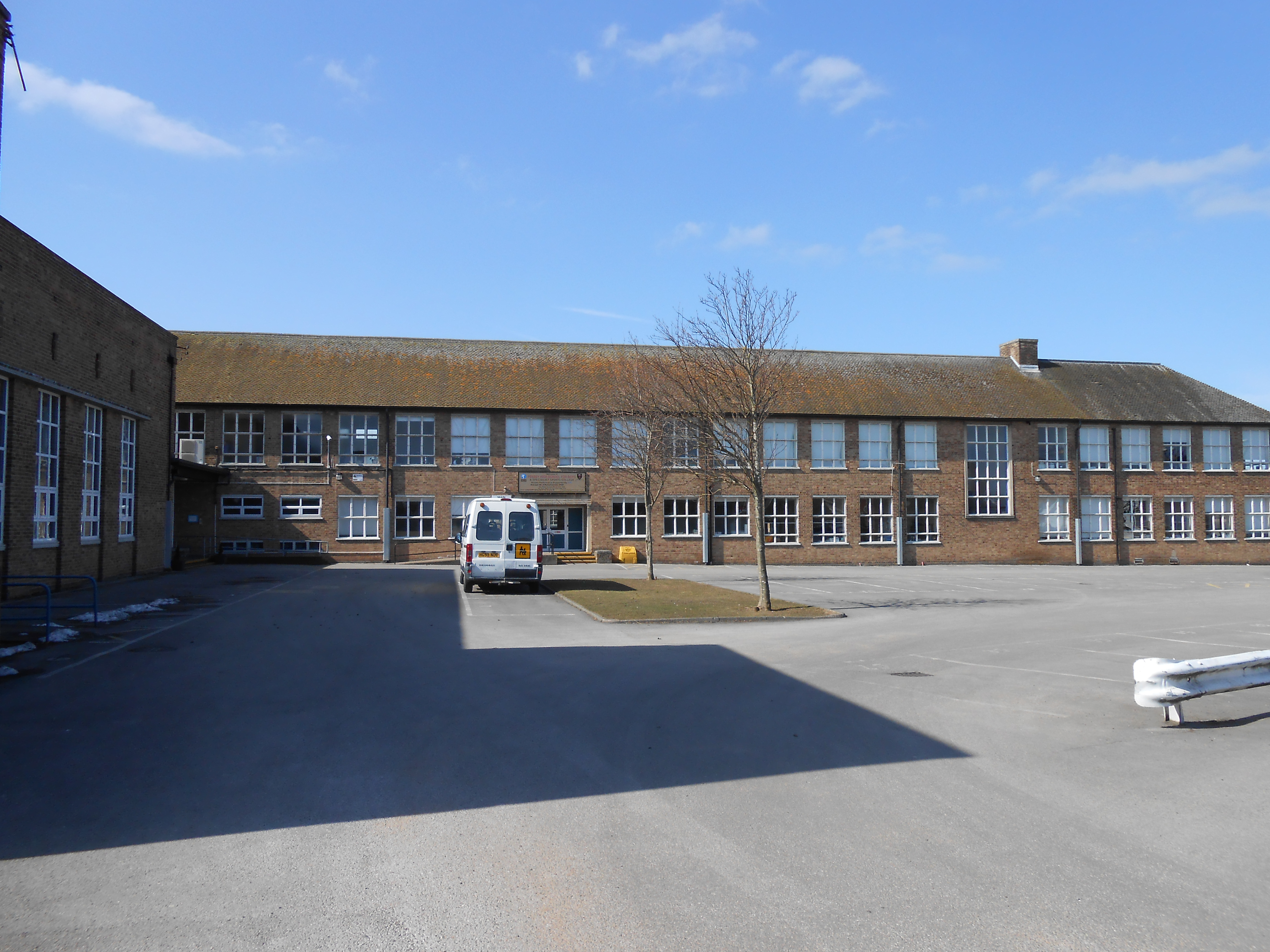 Photo taken at Pensby High School, Wirral, England.